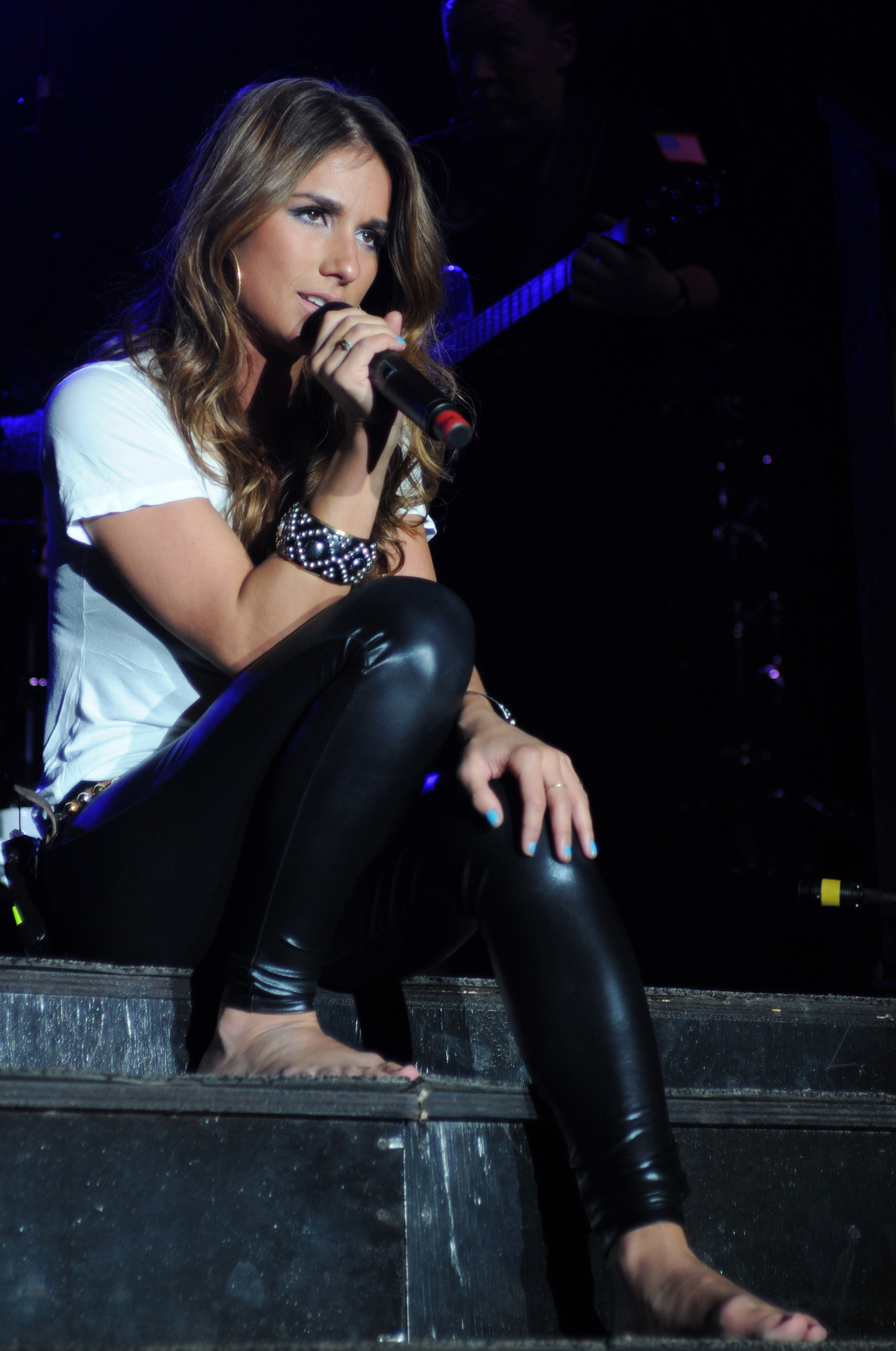 Singer/songwriter Jessie James performs at the Tour for the Troops concert Tuesday Dec. 1, 2009, inside Hangar 4 at Incirlik Air Base, Turkey. Kid Rock and the Twisted Brown Truck Band, singer/songwriter Jessie James and comedian Carlos Mencia kicked off the tour making Incirlik their first stop to thank the troops. The three entertainers also visited various places around the base including the 39th Security Forces Squadron, Incirlik’s American Forces Network studio and the 39th Force Support Squadron.